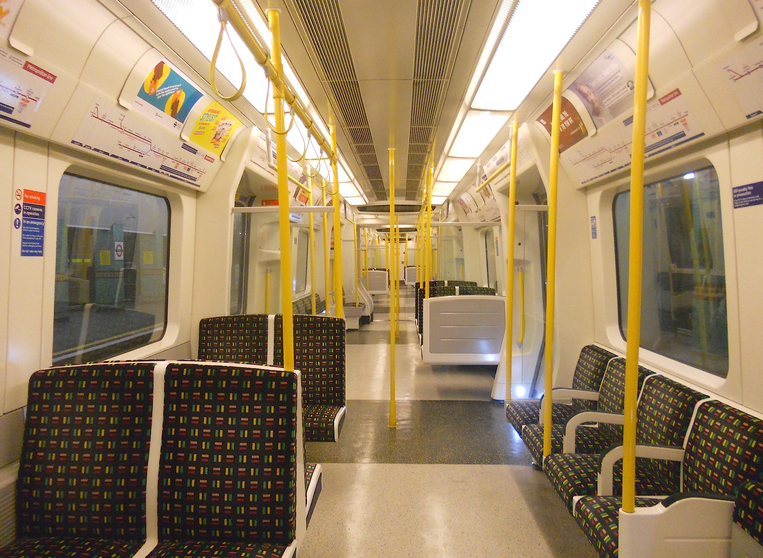 The interior of a Metropolitan line S Stock train